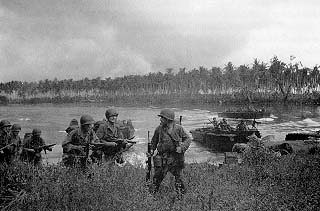 First Wave lands on Los Negros, Admiralty Islands. US Department of Army photograph.